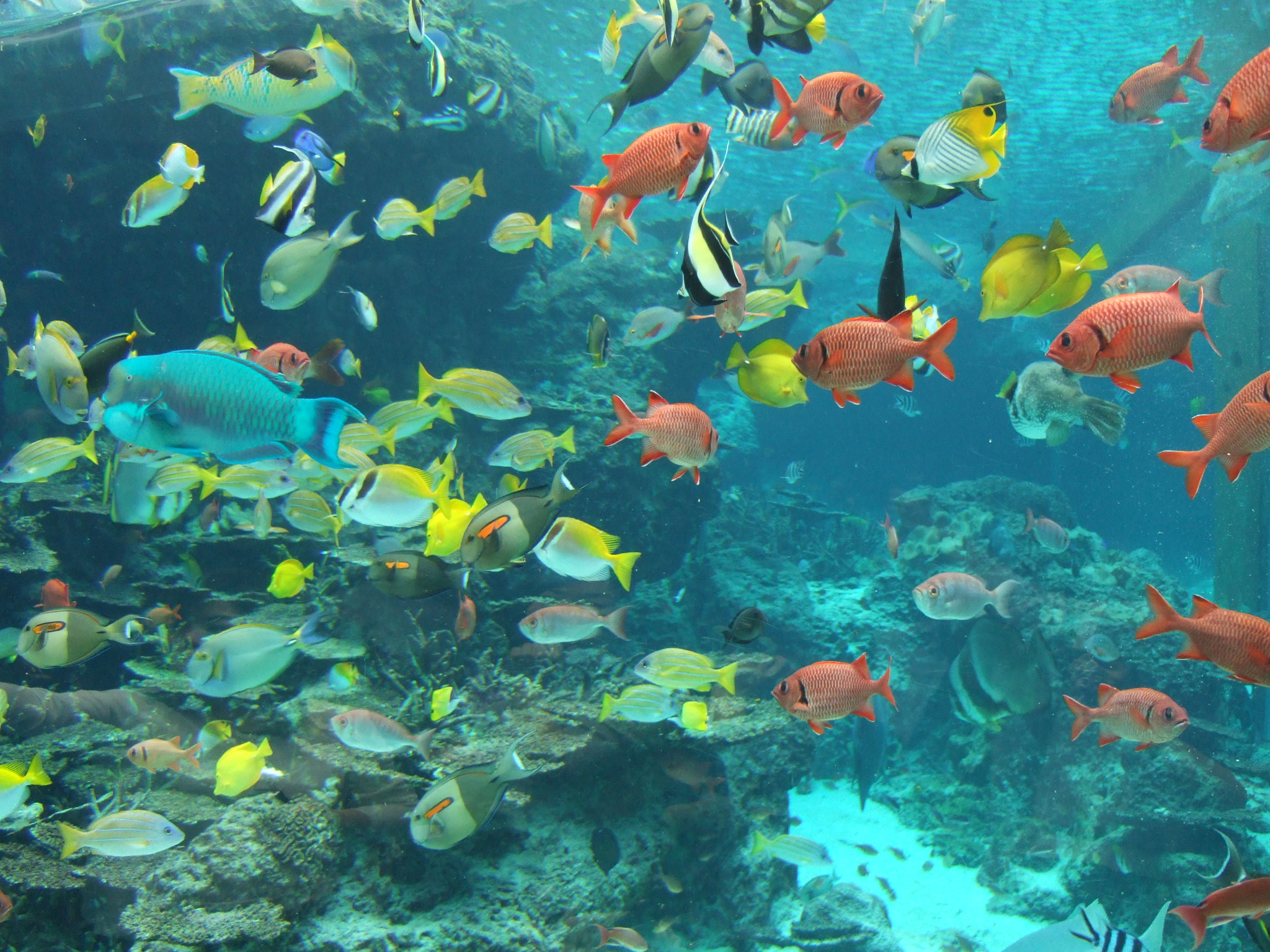 Fish in Okinawa Churaumi Aquarium